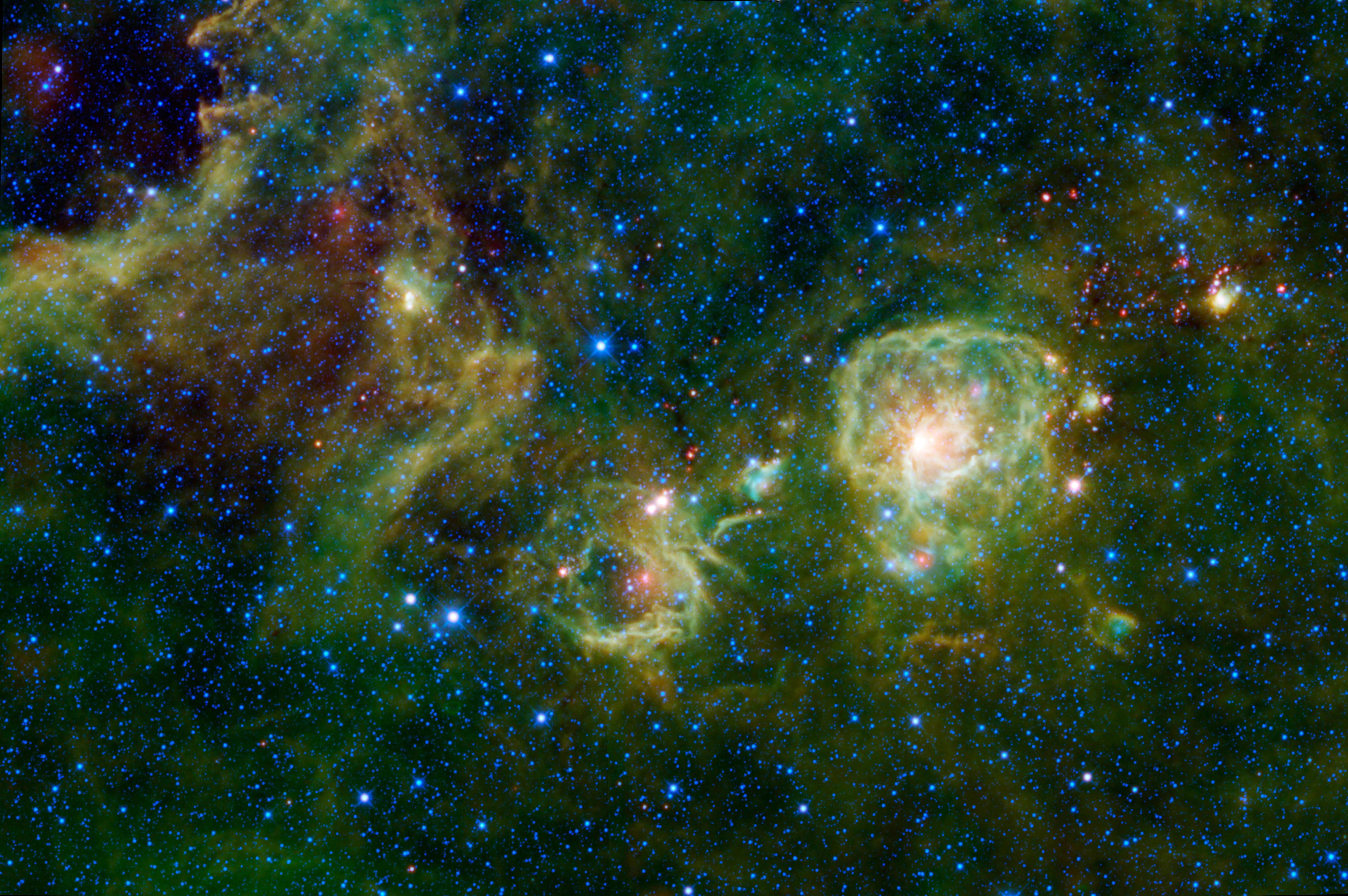 New stars are forming inside this giant cloud of dust and gas as seen in infrared light by NASA's Wide-field Infrared Survey Explorer, or WISE. Sprawling across the constellation Vela is a complex of dark, dense clouds of dust and gas, difficult to detect with telescopes that see only visible light. The complex is called the Vela Molecular Cloud Ridge. This ridge may form part of the edge of the Orion spiral arm spur in our Milky Way galaxy. Astronomers mapping out the region in radio light in the late 1980s found four distinct regions of the densest gas and named them clouds A, B, C and D. This image takes in the first of those clouds, Vela A. Vela A is about 3,300 light-years away. This image of Vela A covers a region on the sky over 4.5 full moons wide and over 3 full moons tall, spanning about 130 light-years in space. The core of the cloud is being excavated by the radiation and winds from hot, young stars. The energy from the new stars is absorbed by the surrounding dust. This hides them from view in visible light, but the heated dust glows in infrared light (seen here in green and red). Sprinkled around Vela A are a few groups of sources that appear very red in this image, and have no known counterparts in visible-light images of the region. It's possible that these may be Young Stellar Objects, which are stars in their very infancy enveloped in dust. The infrared light seen from these baby stars does not come directly from the stars, but rather from the dust around them, which glows as the nascent stars heat it. All four infrared detectors aboard WISE were used to make this mosaic. Color is representational: blue and cyan represent infrared light at wavelengths of 3.4 and 4.6 microns, which is dominated by light from stars. Green and red represent light at 12 and 22 microns, which is mostly light from warm dust.